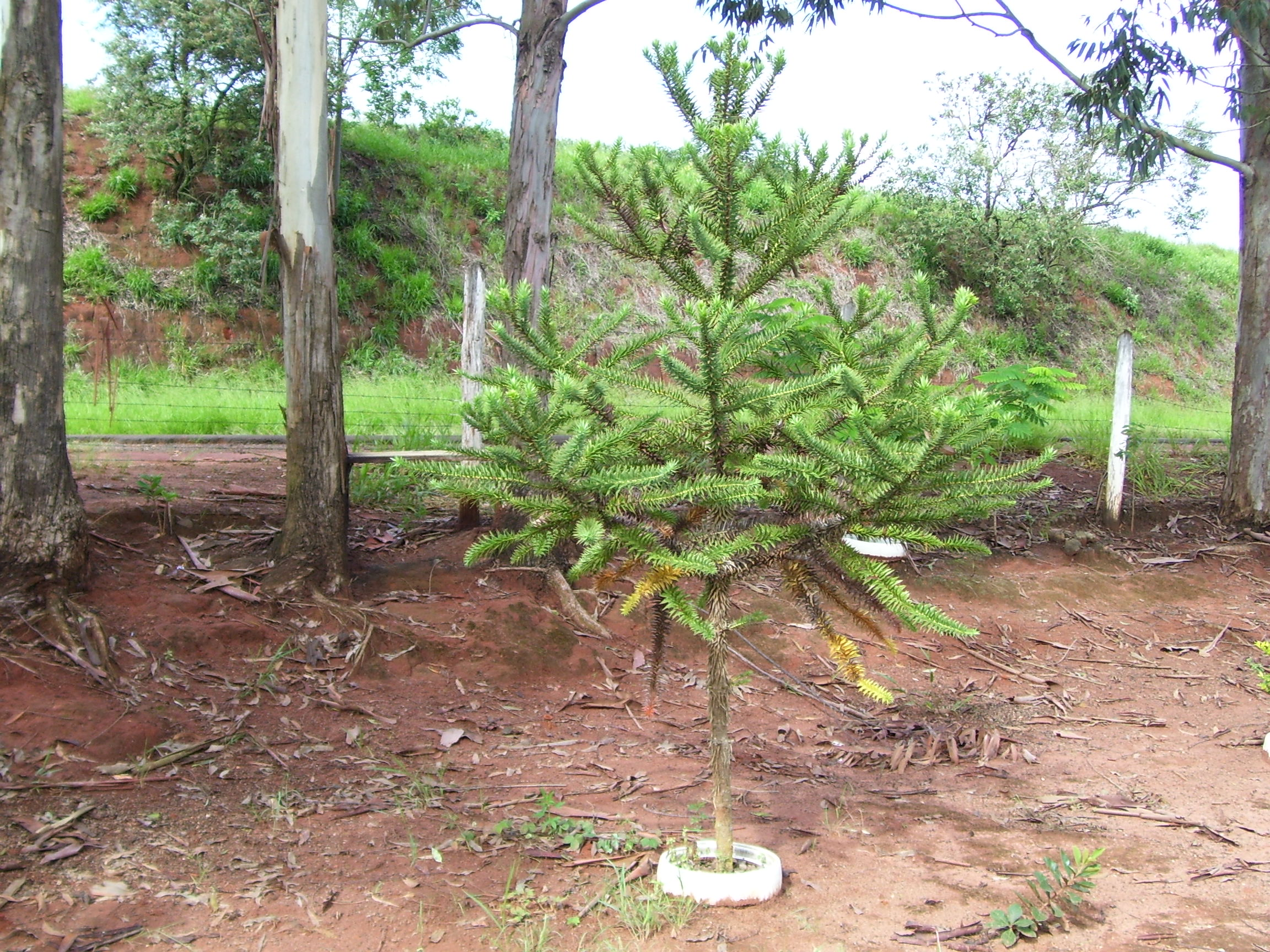 Araucaria angustifolia)